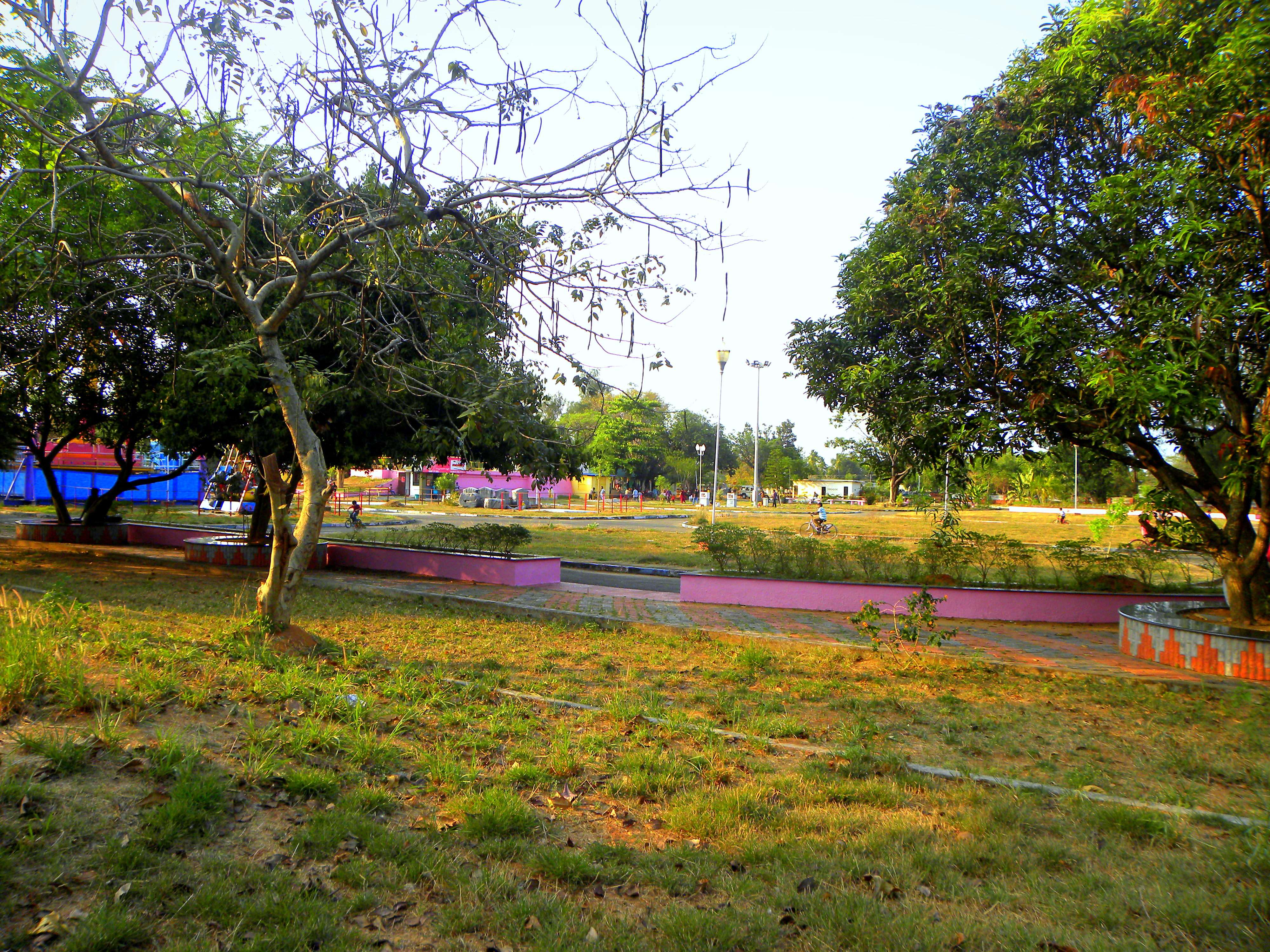 Asramam Children's Park is one among the model Children's Parks in Kerala state with most modern rides and facilities